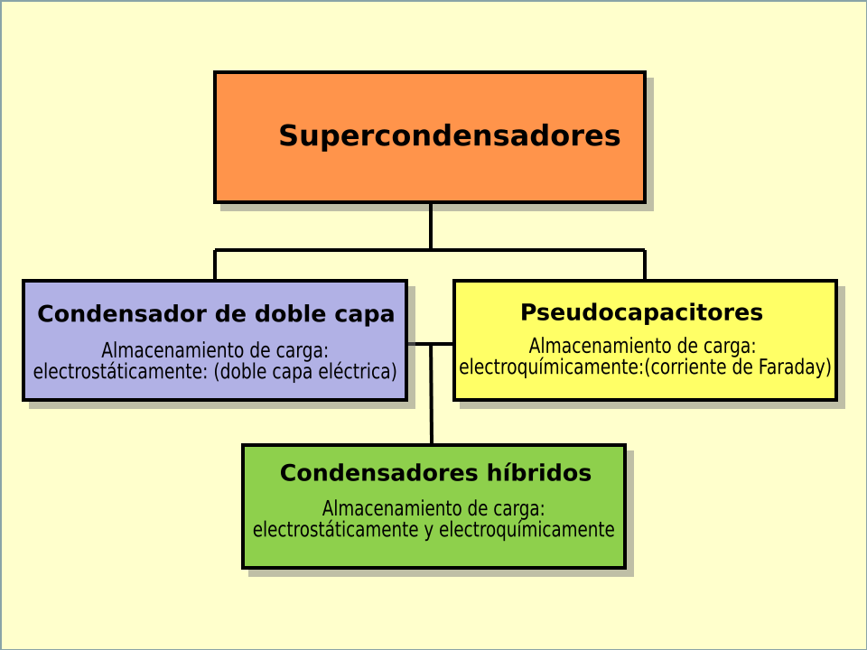 Hierachical classification of supercapacitors and related types